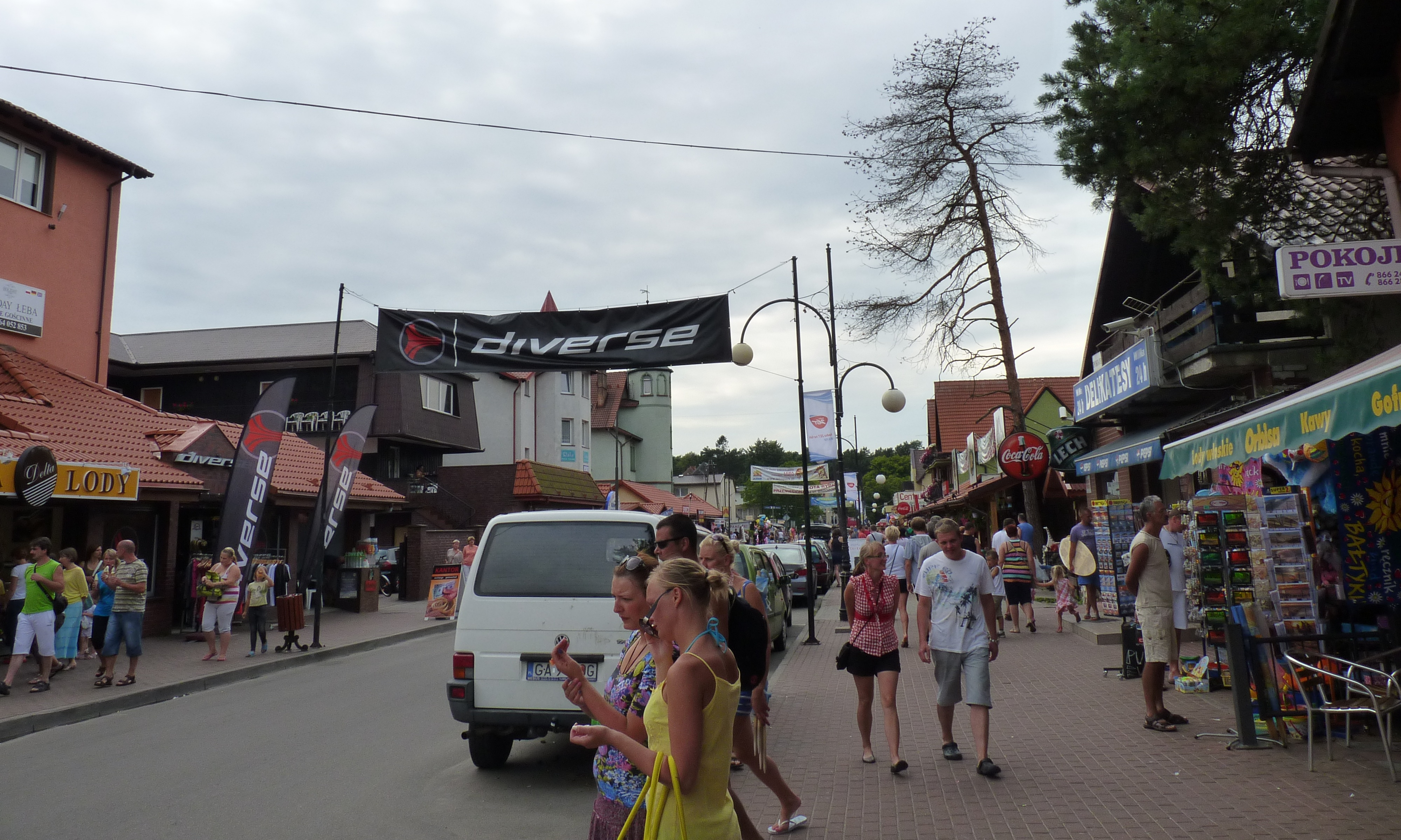 Łeba in Poland, Nadmorska, facing west.